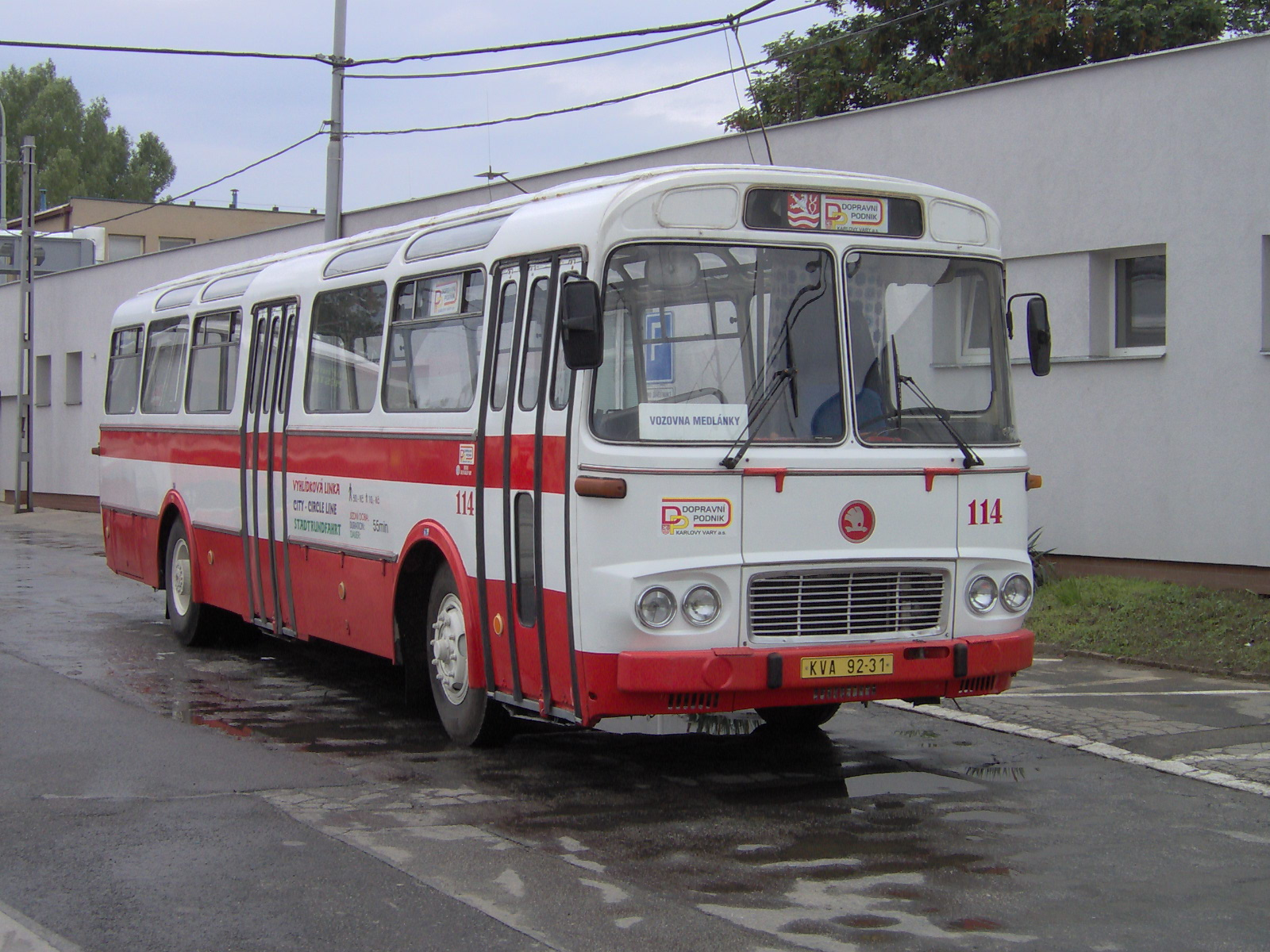 Historical 1974 Karosa ŠL 11 bus from Karlovy Vary in Brno